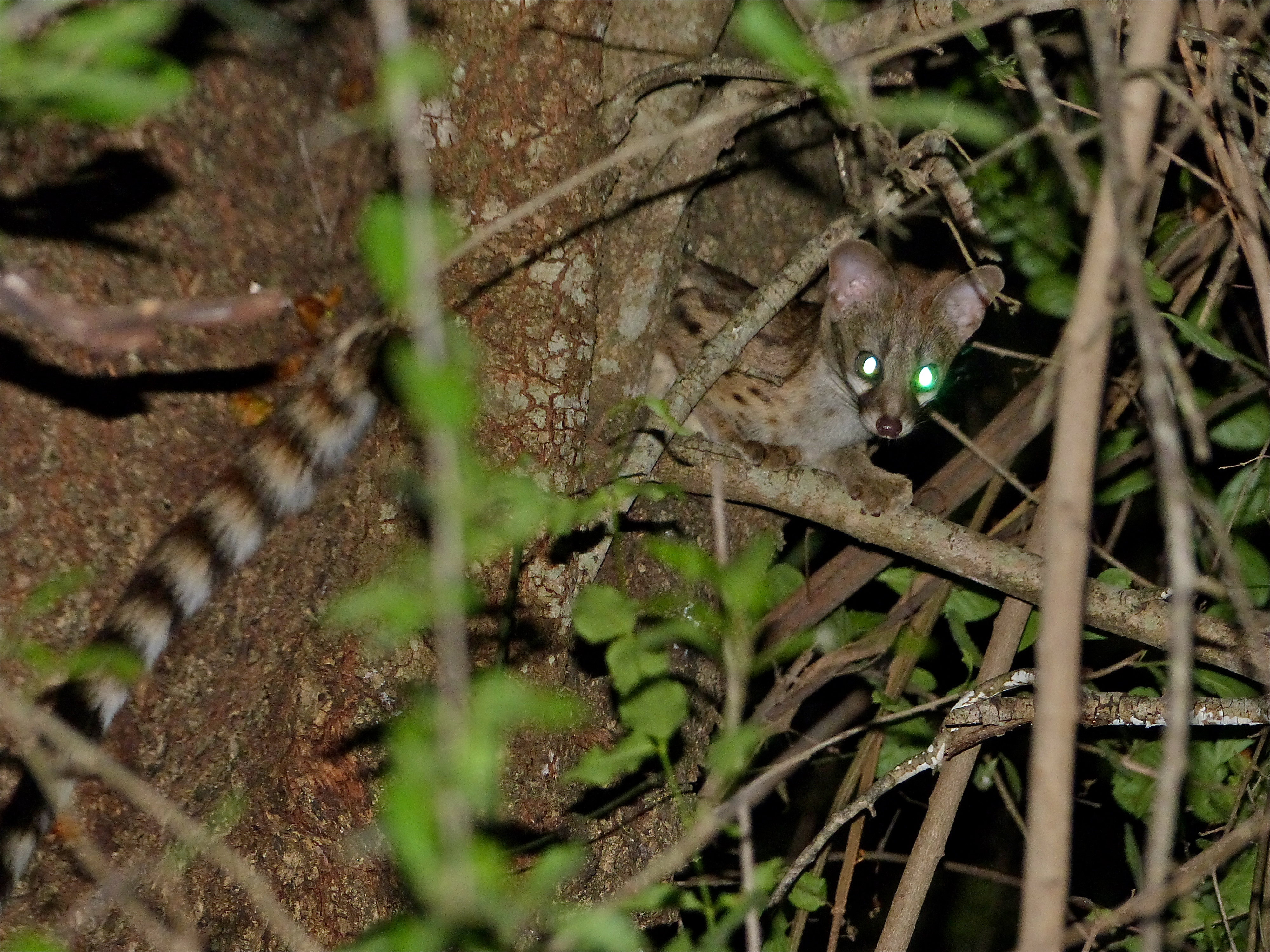 Tamboti Tented Camp, Kruger NP, SOUTH AFRICA